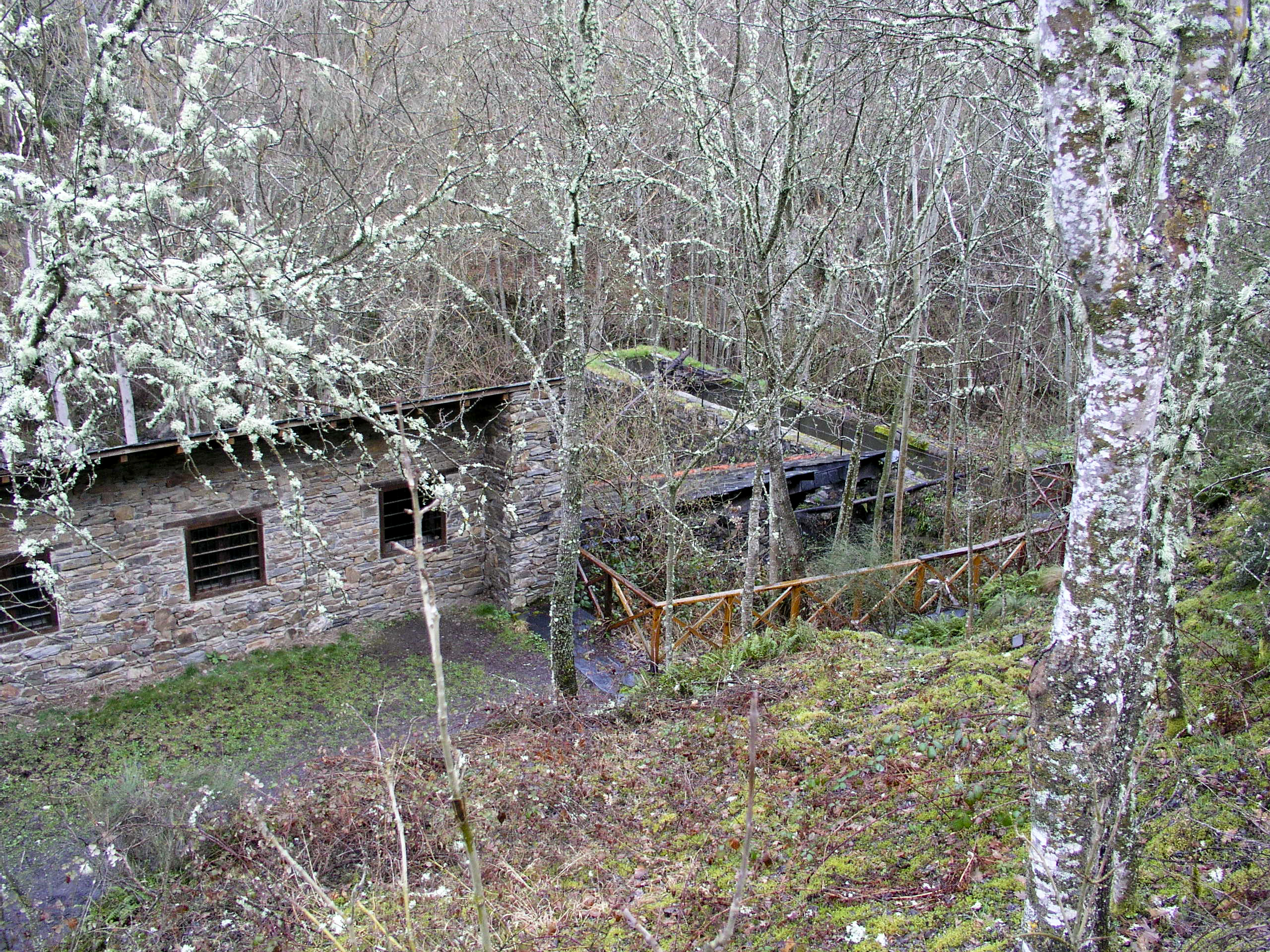 Forge at Compludo, Province of León, Spain. Rear side with water baisin.